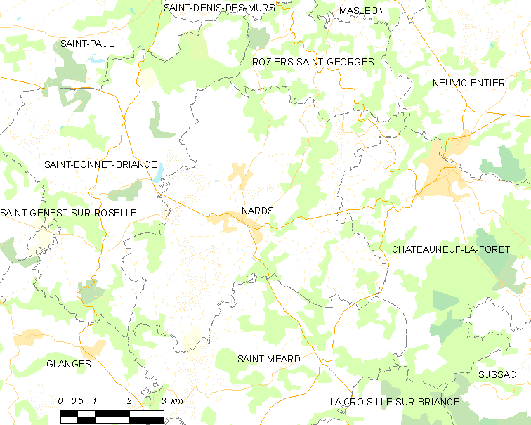 Map of French municipality Linards